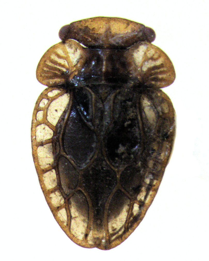 adult female Xenophyes rhachilophus, length about 2.8 mm. The Divide (c. 550m), Nothofagus forest, screen sweep. L16986. Fiordland National Park, New Zealand, 13 Mar 2010, J.W. Early (AMNZ).